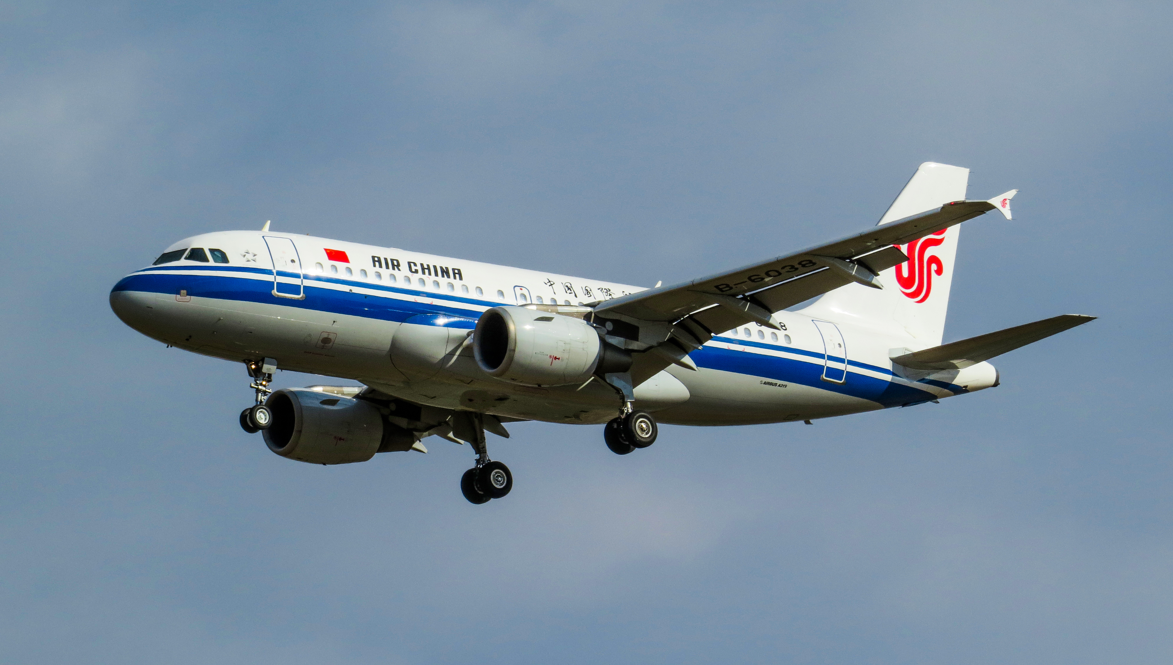 Air China 1420 from Dali, Yunnan. This flight is followed by SQ802, flown by 9V-SKK.